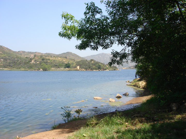 Dixon Lake in Escondido, CA. Photo taken by David McGovern.